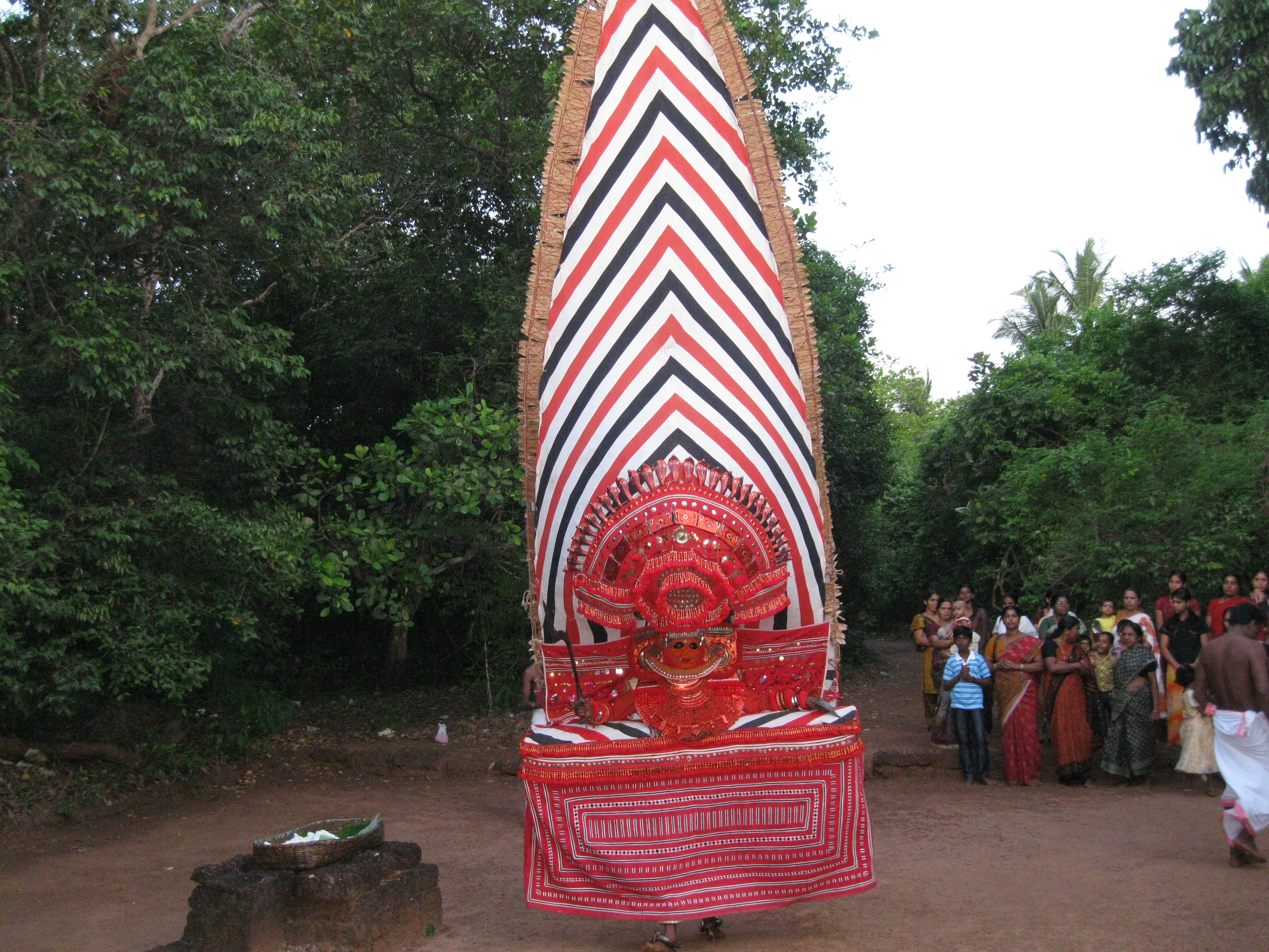 neeliyarbhagavathi theyyamkerala